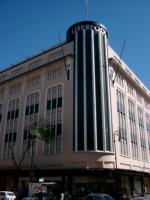 Liverpool Department store in 20 de Noviembre Avenue, Centro Historico, Mexico City, Mexico.